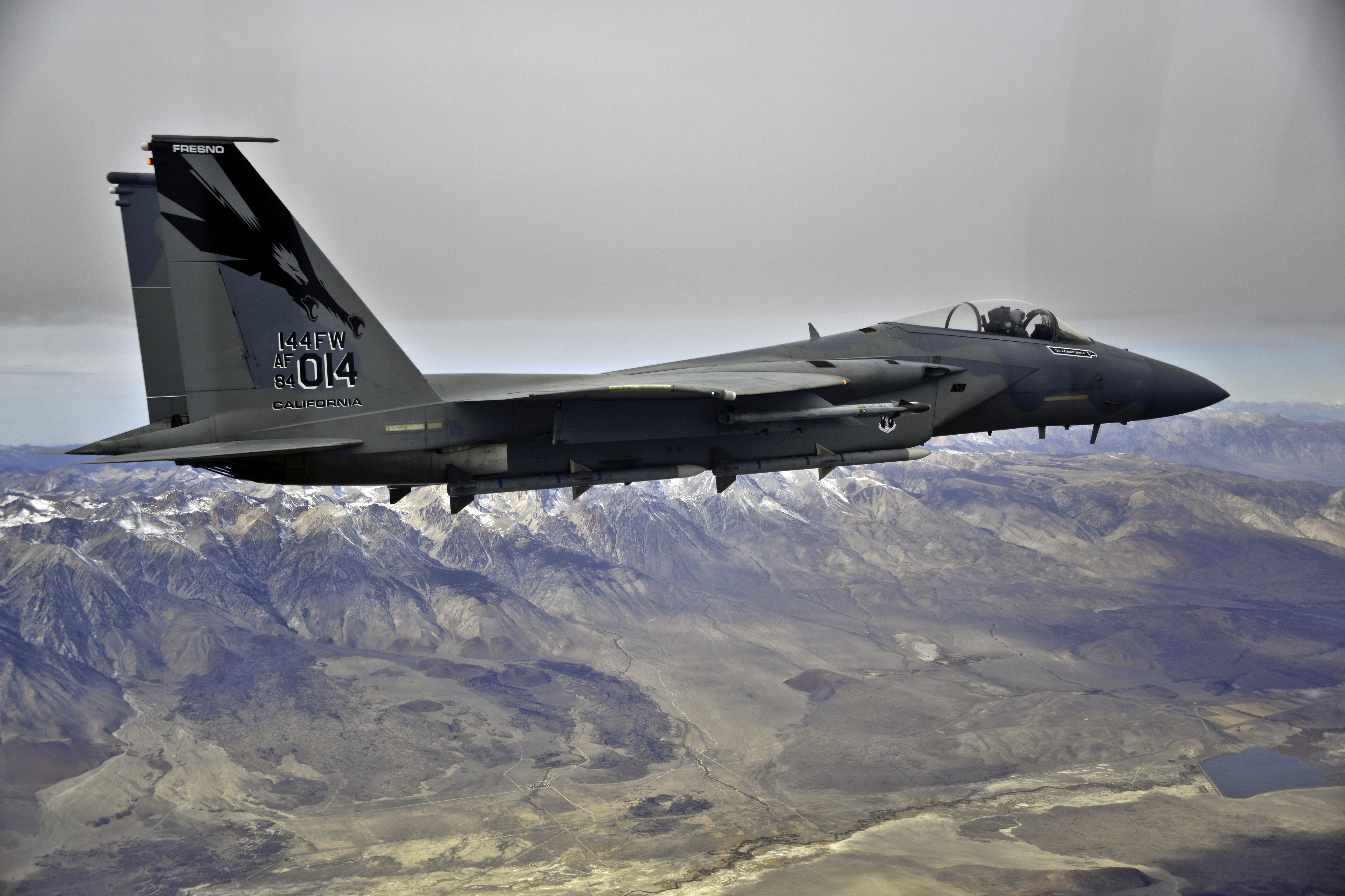 A U.S. Air Force F-15C Eagle flies over the skies of Fresno, California. The aircraft is assigned to the 144th Fighter Wing, California Air National Guard, Fresno, Calif., Nov., 7, 2013.